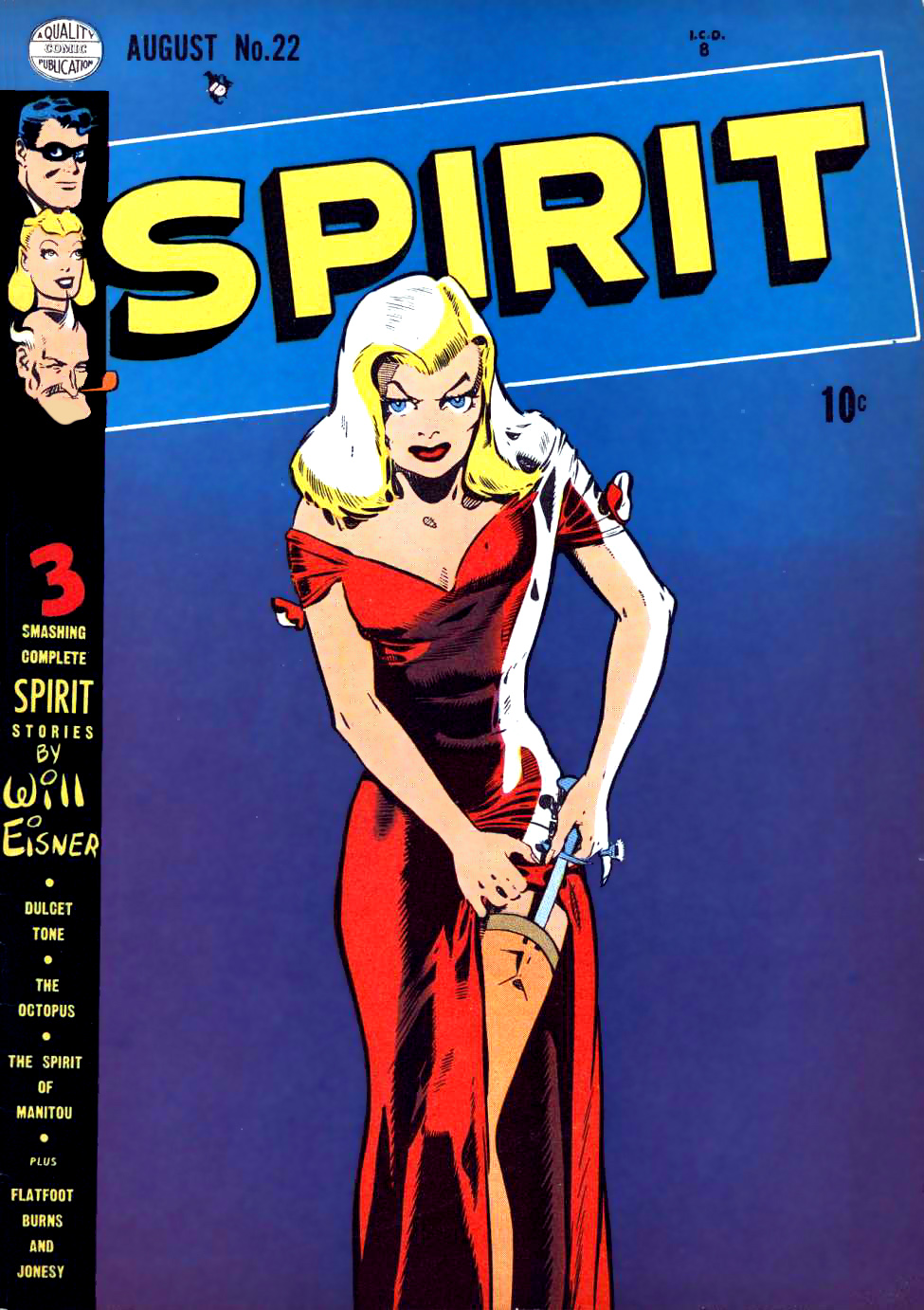 Cover of The Spirit, volume 1, number 22, August 1950, as published by Quality Comics. This image has lapsed into the public domain, due to Quality failing to renew the copyright.